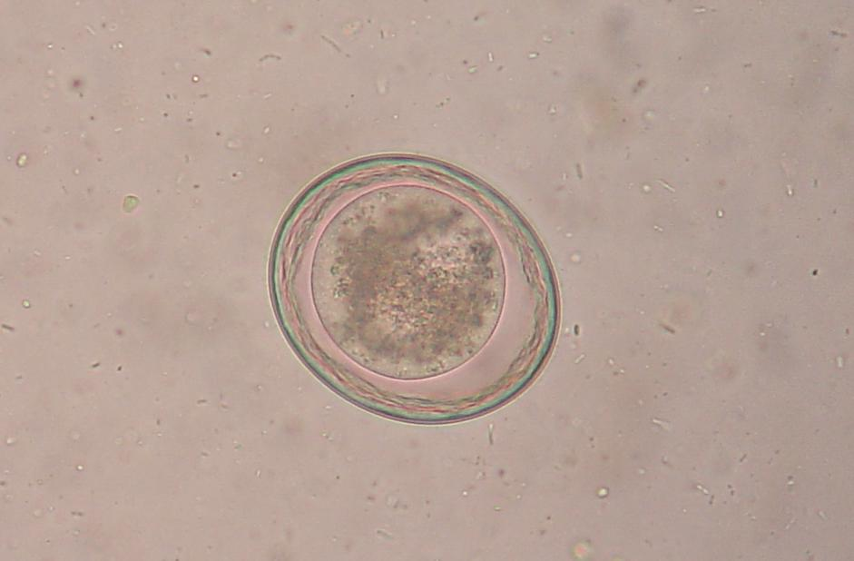 A canine roundworm (Toxascaris leonina) egg. Photo taken through a microscope at 400x.